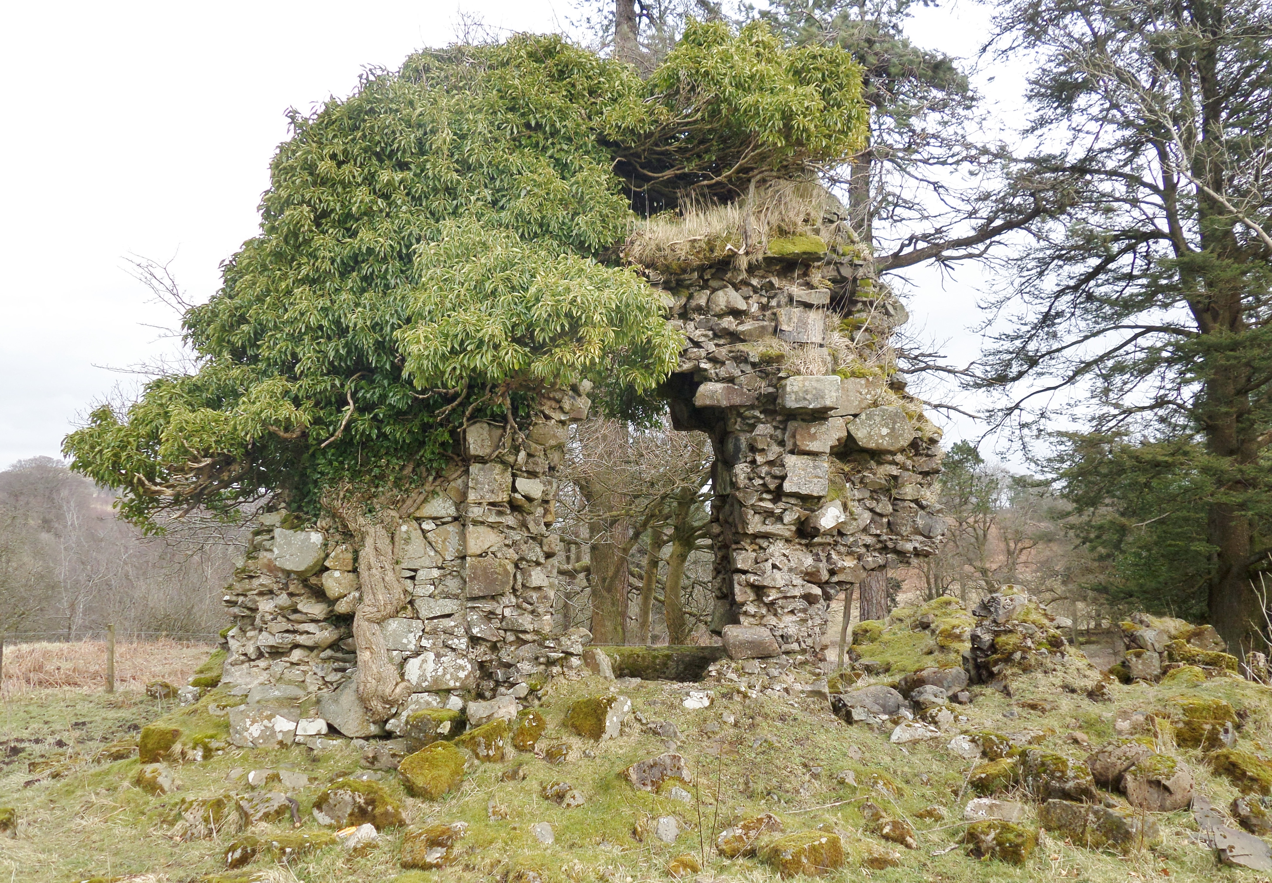 West facing aspect at the Old Cowden Hall on the estate, Neilston, East Renfrewshire, Scotland. The main fireplace was in this wall.